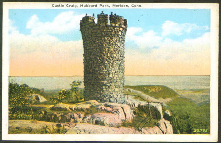 Postcard: Castle Craig in Hubbard Park, Meriden, Connecticut, 1910s Description: "Castle Craig Hubbard Park meriden CT postcard 191? [...] Standard-size postcard. Unused, unwritten, unmailed, undated" Seller's date is apparently estimated.